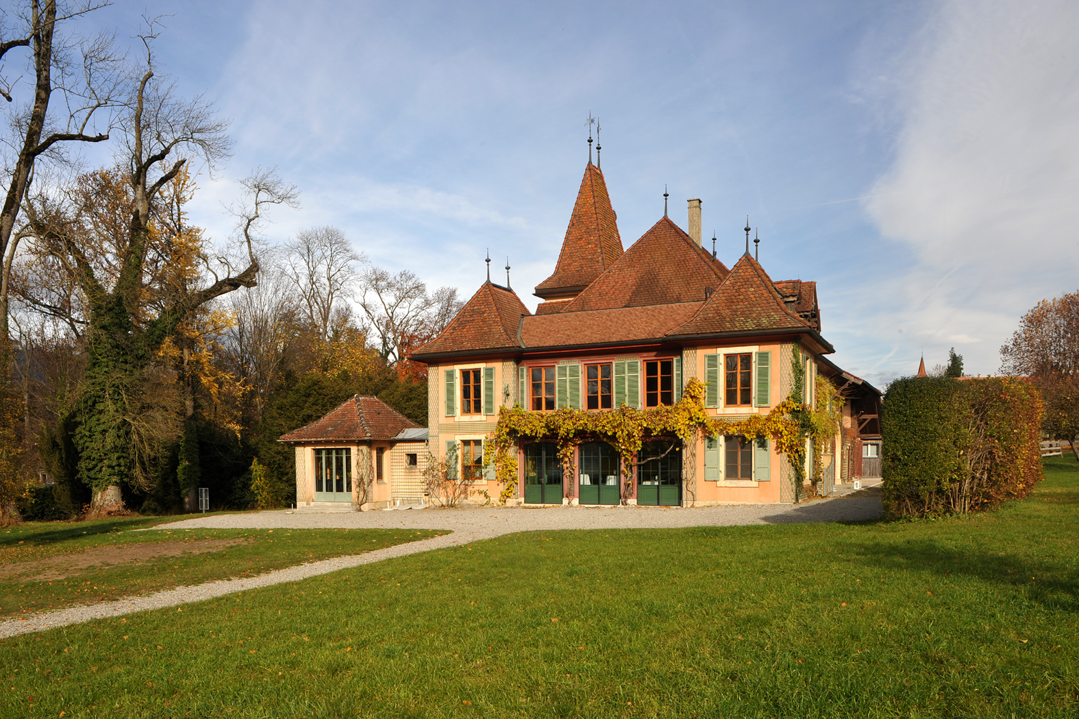 Von Rütte estate near Lake Biel in Sutz-Lattrigen; Berne, Switzerland.